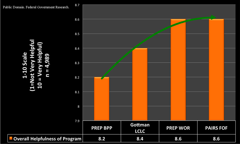 Data from Supporting Healthy Marriage Implementation Report - Work Created by Agency of Federal Government. Public domain.